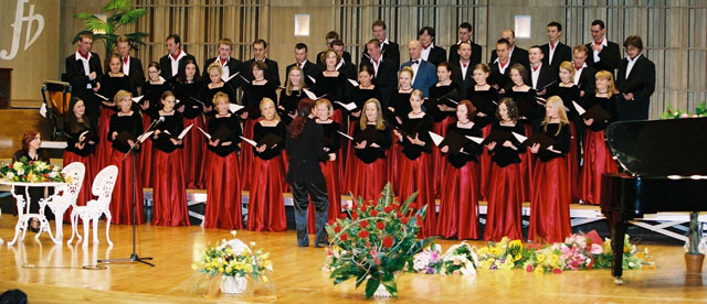 Choir of Białystok Technical University